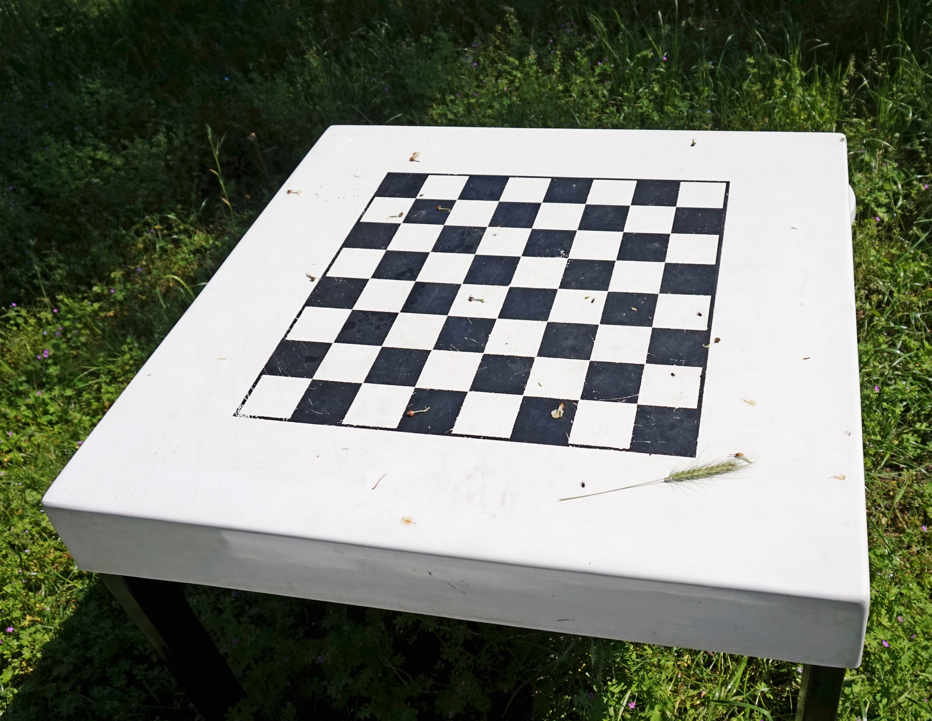 Chessboard in Ramnicu Valcea Zoo, Romania. This photograph was taken with a Sony Alpha a5000.